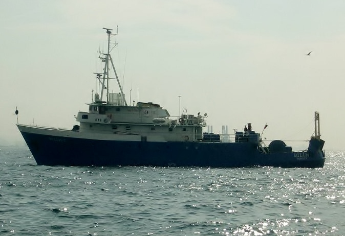 RV/Bilim 2's photo taken by Selim DURMUŞ on 05 October 2006 in Bosporus during the Research Cruise "Black Sea October 2006".